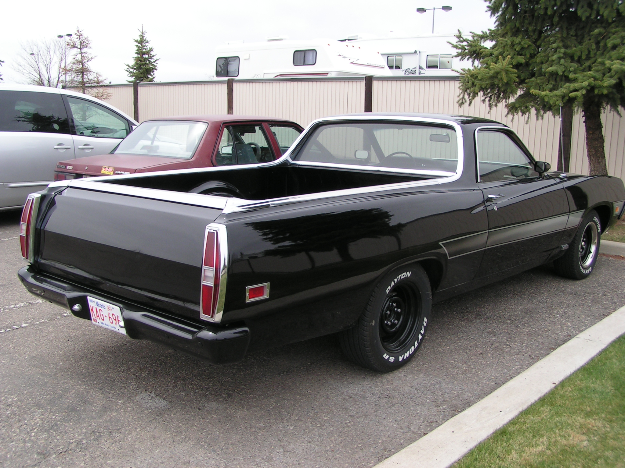 1970 Ford Torino Ranchero